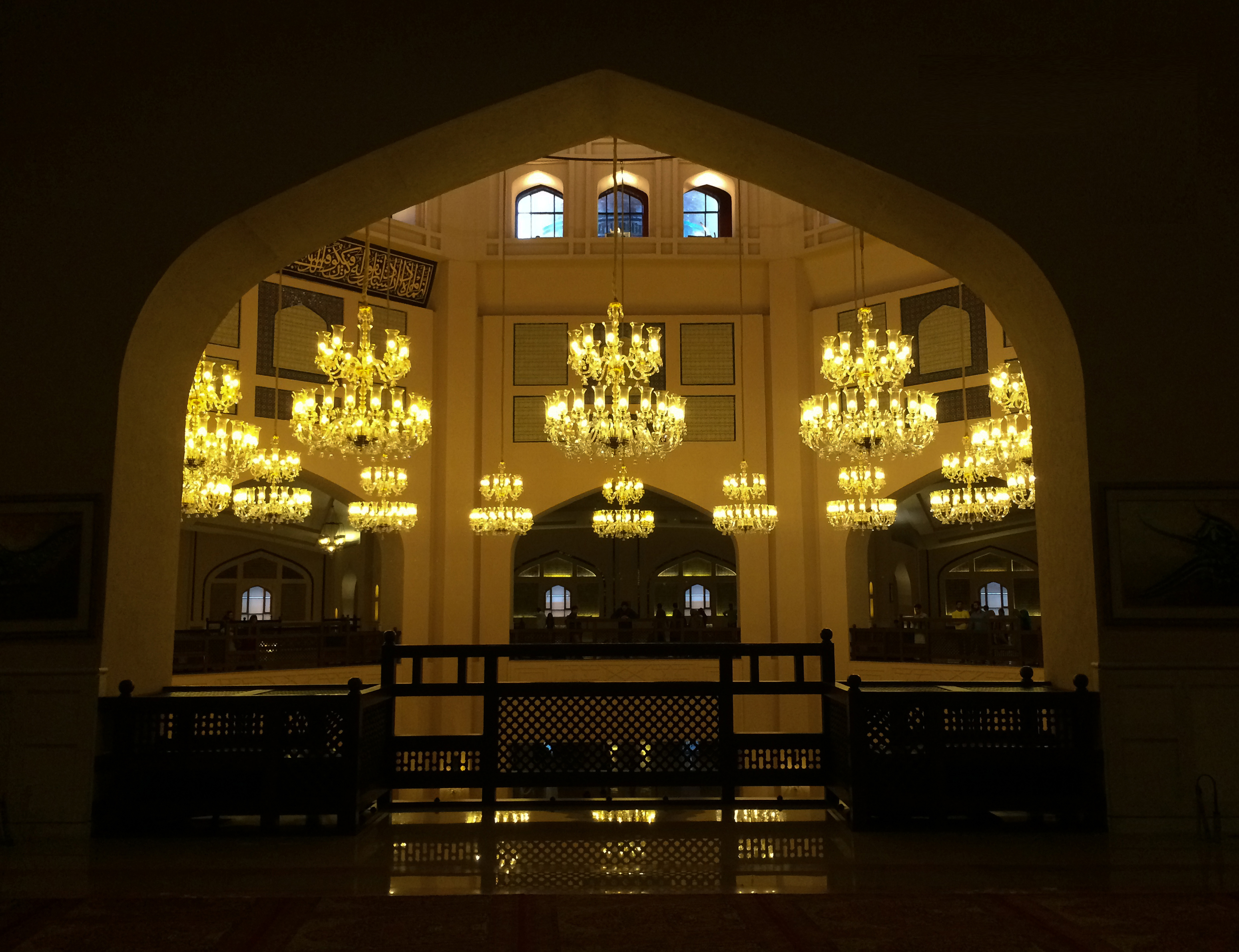 Place of Peace...